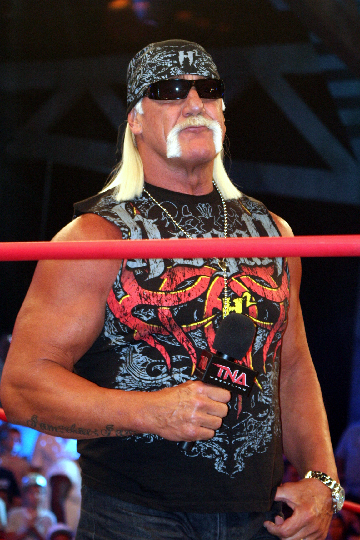 Hulk Hogan during a TNA Impact! taping.